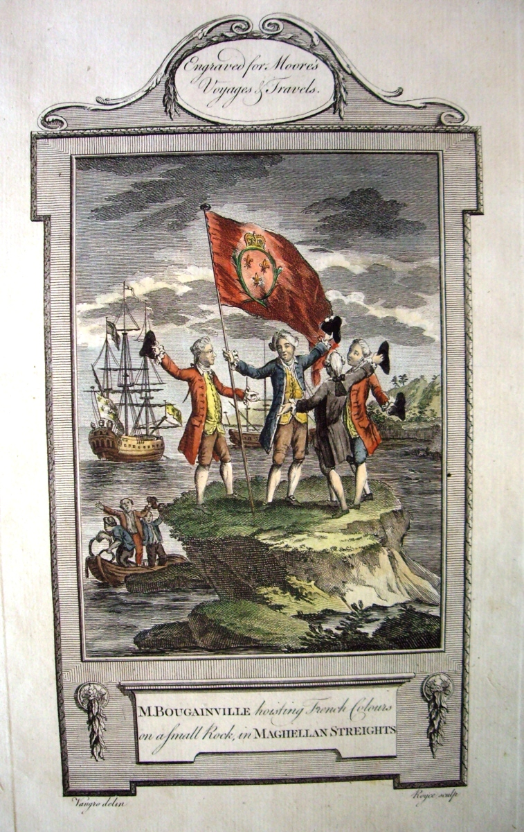 Copper plate engraving of M Bougainville hoisting French Colours on a small rock in Maghellan Streights, South America. Engraved by Royce from an original drawing by Vangro the engraving was published for Moore's Voyages & Travels around 1780